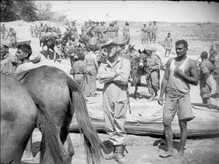 [20th Indian Division Crossing the River Irrawaddy at Myinmu] [allocated] One mile west of Myinmu in central Burma troops of 100th Indian Infantry Brigade, 20th Indian Division cross the river Irrawaddy.